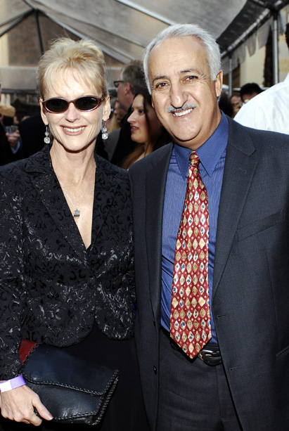 Brian George at the 2006 Annie Awards red carpet at the Alex Theatre in Glendale, California.